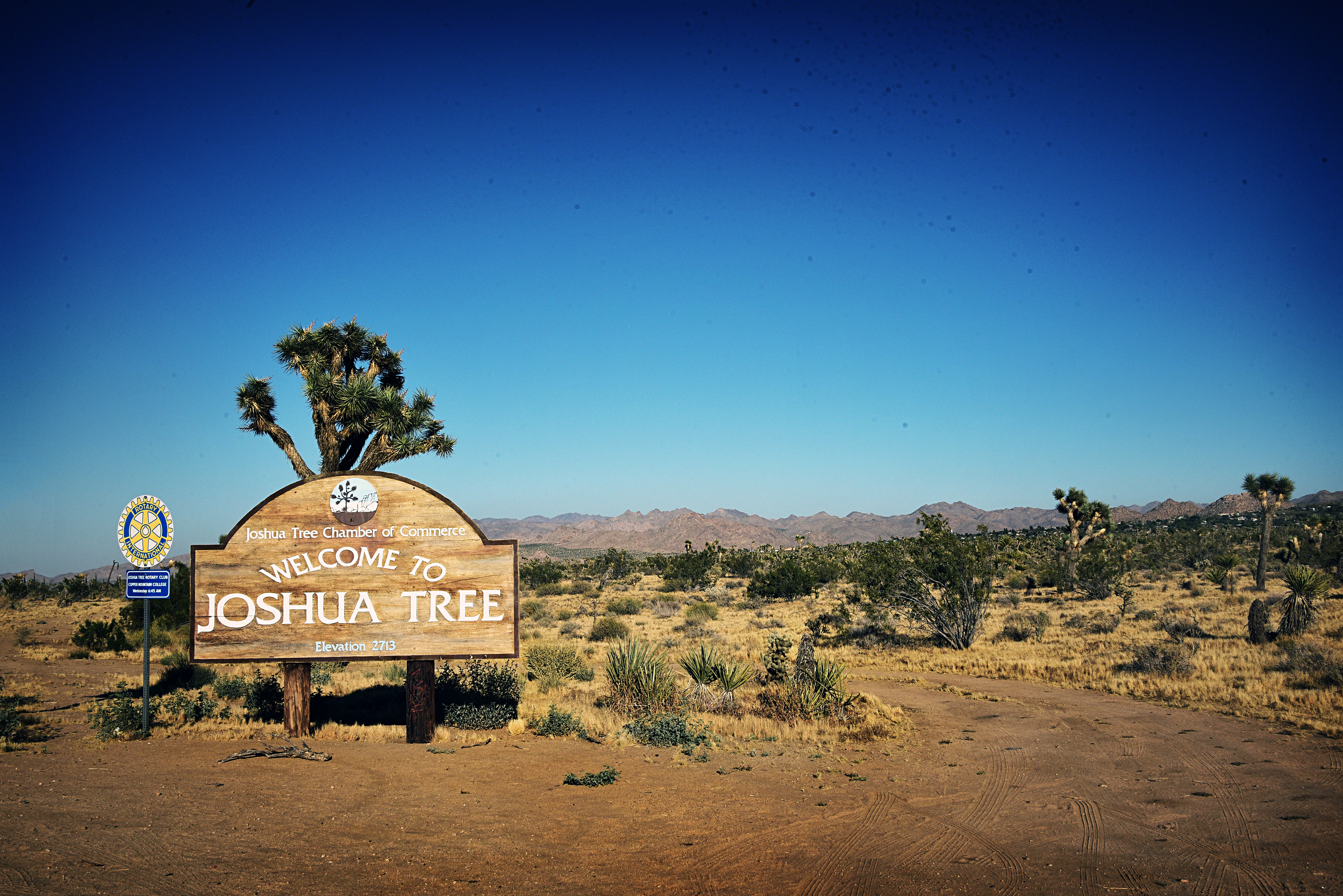 Joshua Tree Welcome Sign off Highway 62 in Joshua Tree California in June 2017 - Photo by Glen Francis of